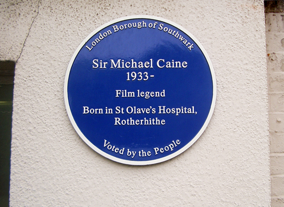 Sir Michael Caine Plaque Mounted on the old gatehouse this being the only remaining part of St Olave’s Hospital still standing. Lower Road, Rotherhithe.